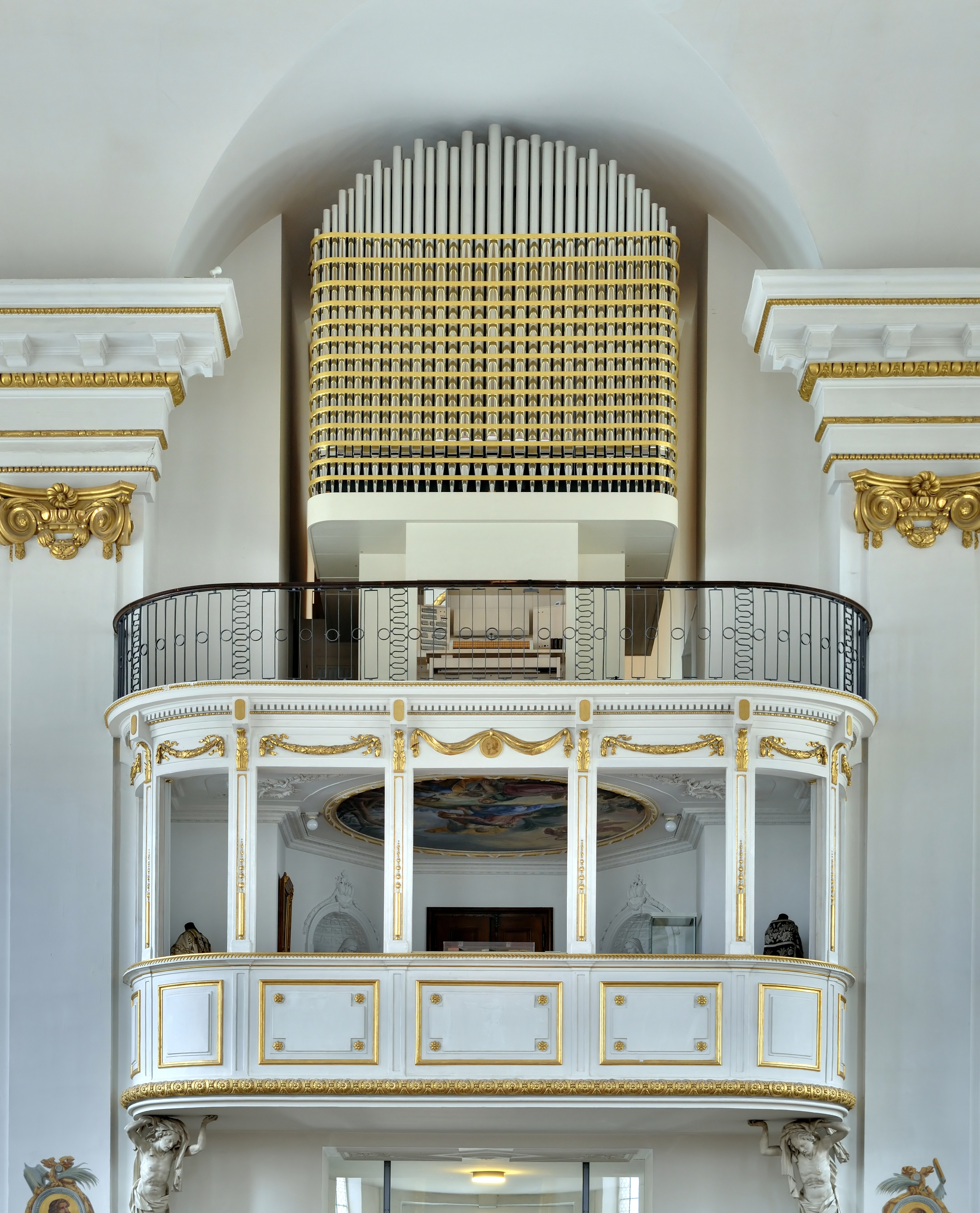 Hechingen: Collegiate Church